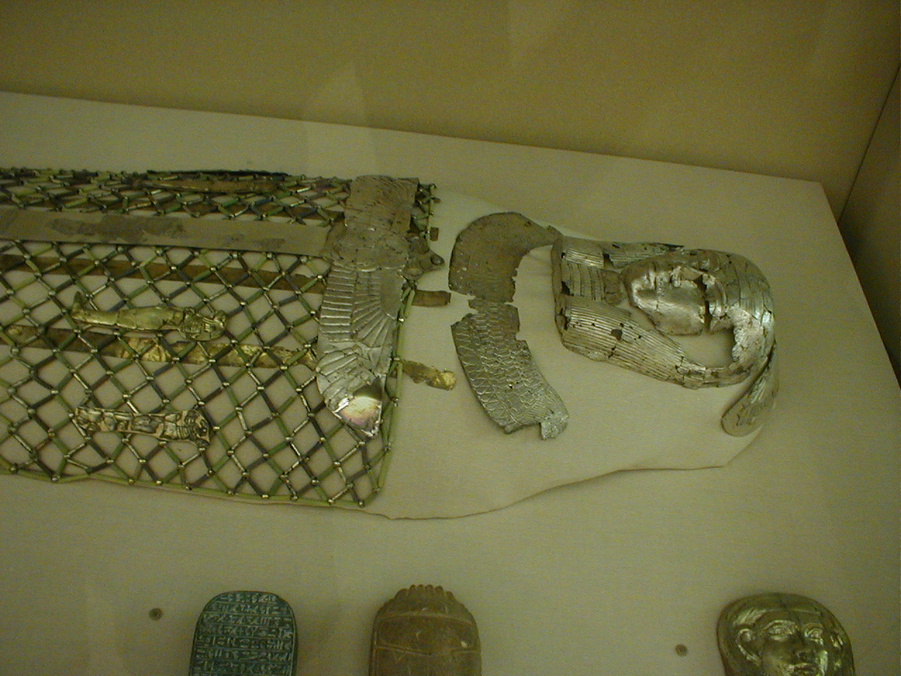 Mummy trappings-(including Scarab artifacts), and coffin, of Queen Mernua, early 6th century BC. At the Boston Museum of Fine Arts